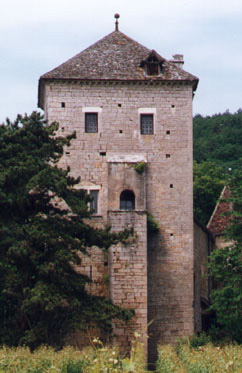 Chateau de Gevrey-Chambertin